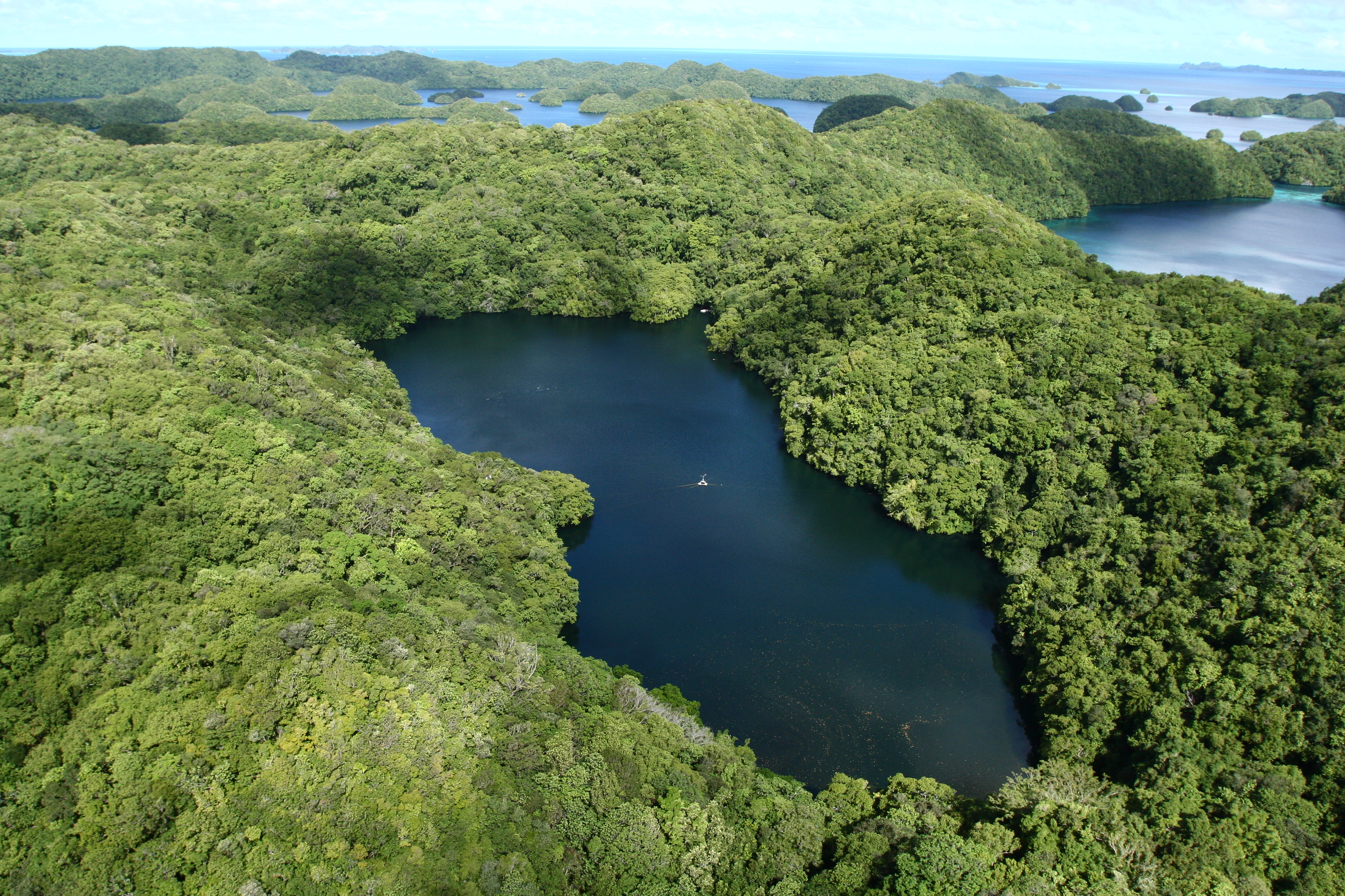 Jellyfish Lake on Eil Malk Island, Palau. Looking west-northwest with some coral and rock islets in the background. The Seventy Island Preserve is just visible in the upper left on the horizon. At the bottom of the image, in the lake, the numerous bright dots are the jellyfish.